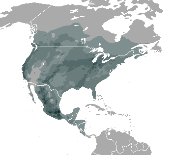 Generated by wikipedia-range-maps. Base map derived from BlankMap-World.png. Diversity of Thamnophis, "garter snakes". Taxon: Animalia Chordata Reptillia Squamata Serpentes Colubridae Natricinae Thamnophis Containing the following taxa: Thamnophis angustirostris MISSING Thamnophis atratus IUCN Thamnophis brachystoma IUCN Thamnophis butleri IUCN Thamnophis chrysocephalus IUCN Thamnophis couchii IUCN Thamnophis cyrtopsis IUCN Thamnophis elegans IUCN Thamnophis eques IUCN Thamnophis errans IUCN Thamnophis exsul IUCN Thamnophis fulvus IUCN Thamnophis gigas IUCN Thamnophis godmani IUCN Thamnophis hammondi IUCN Thamnophis marcianus MISSING Thamnophis melanogaster IUCN Thamnophis mendax IUCN Thamnophis nigronuchalis IUCN Thamnophis ordinoides IUCN Thamnophis postremus IUCN Thamnophis proximus textual description Thamnophis pulchrilatus IUCN Thamnophis radix IUCN Thamnophis rossmani IUCN Thamnophis rufipunctatus IUCN Thamnophis sauritus IUCN Thamnophis scalaris IUCN Thamnophis scaliger IUCN Thamnophis sirtalis IUCN Thamnophis sumichrasti IUCN Thamnophis valida IUCN